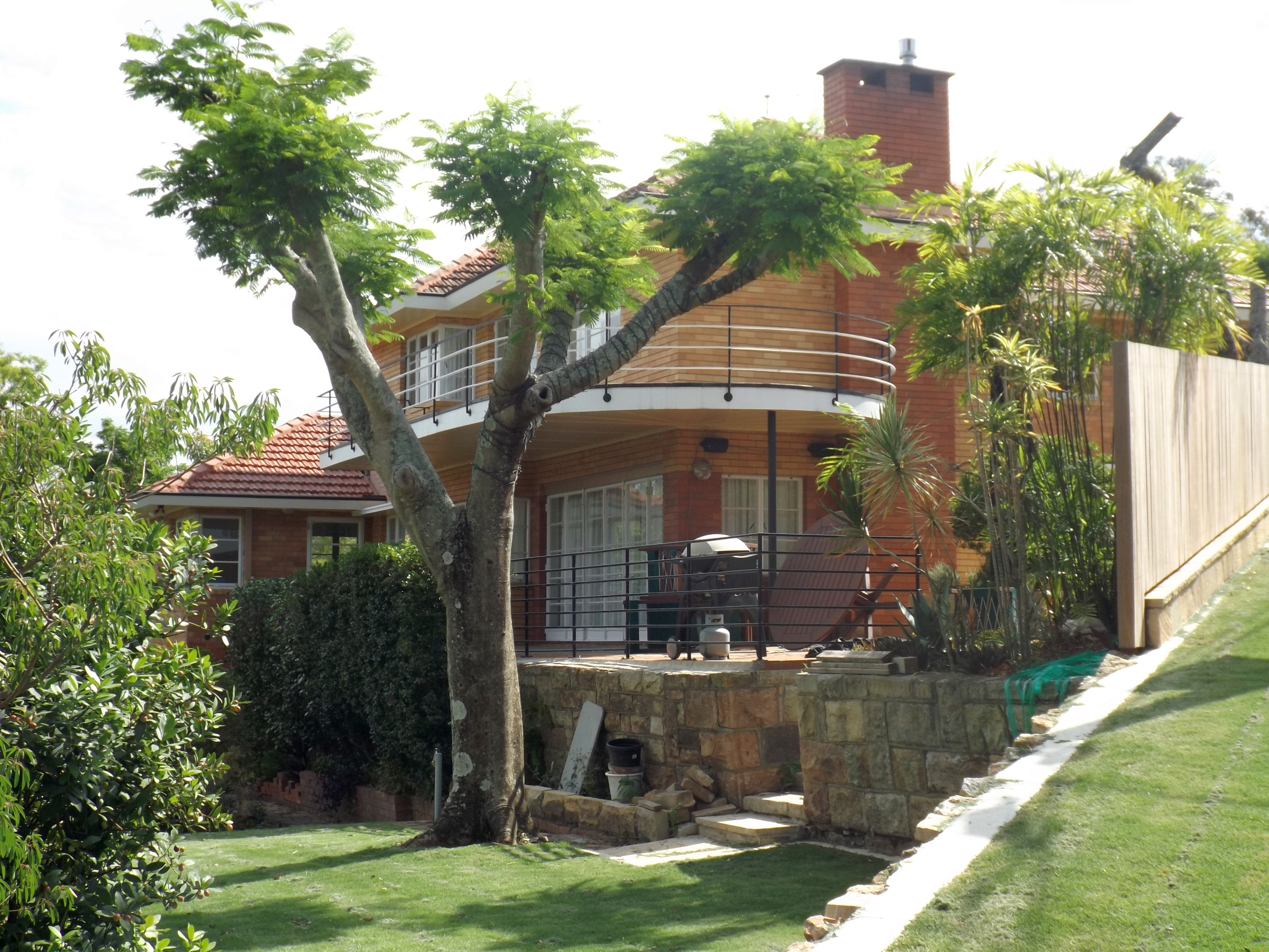 Photo of Fulton Residence at Taringa, Brisbane, Queensland, Australia.